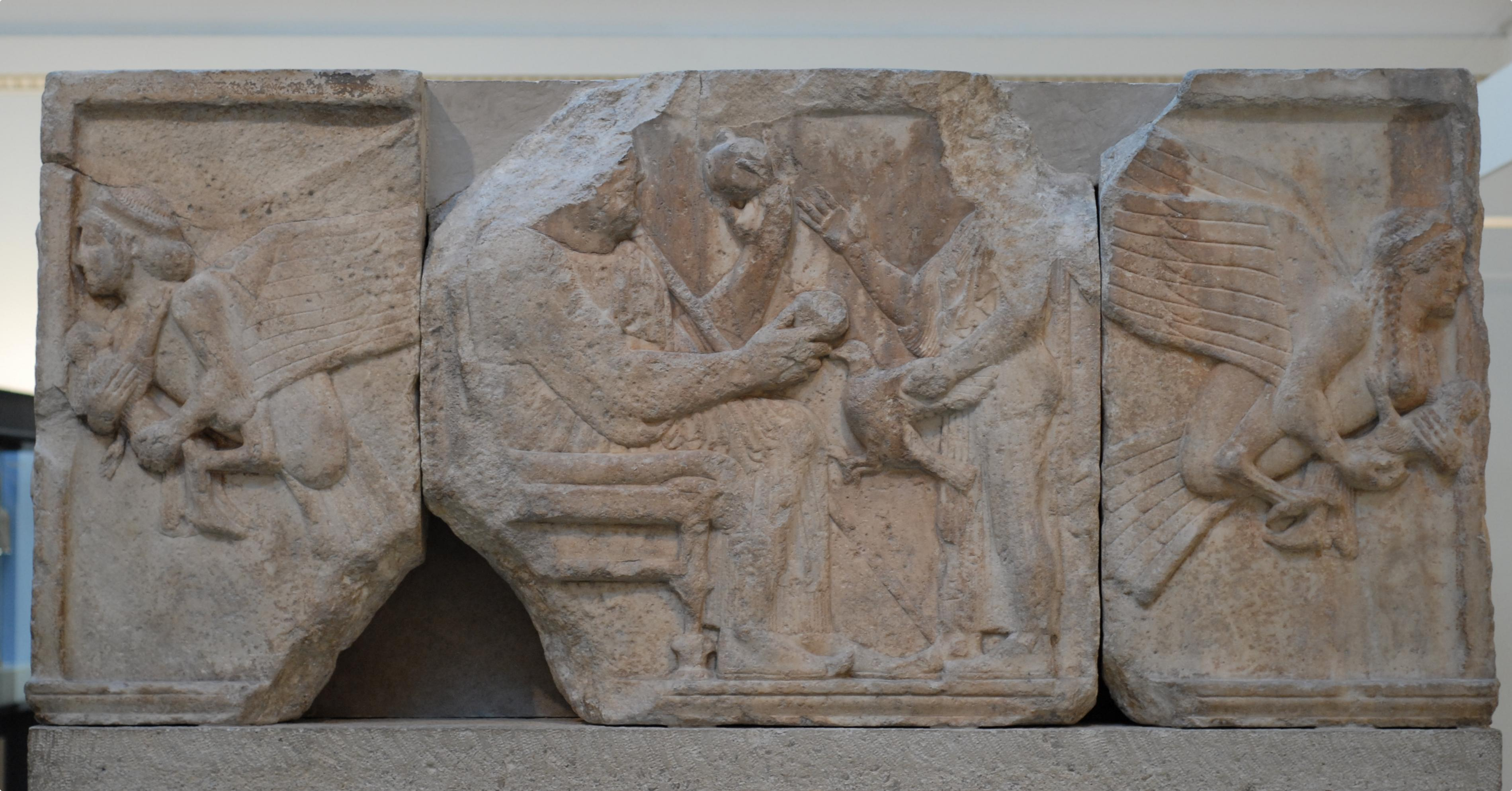 Harpy tomb, from Lycia